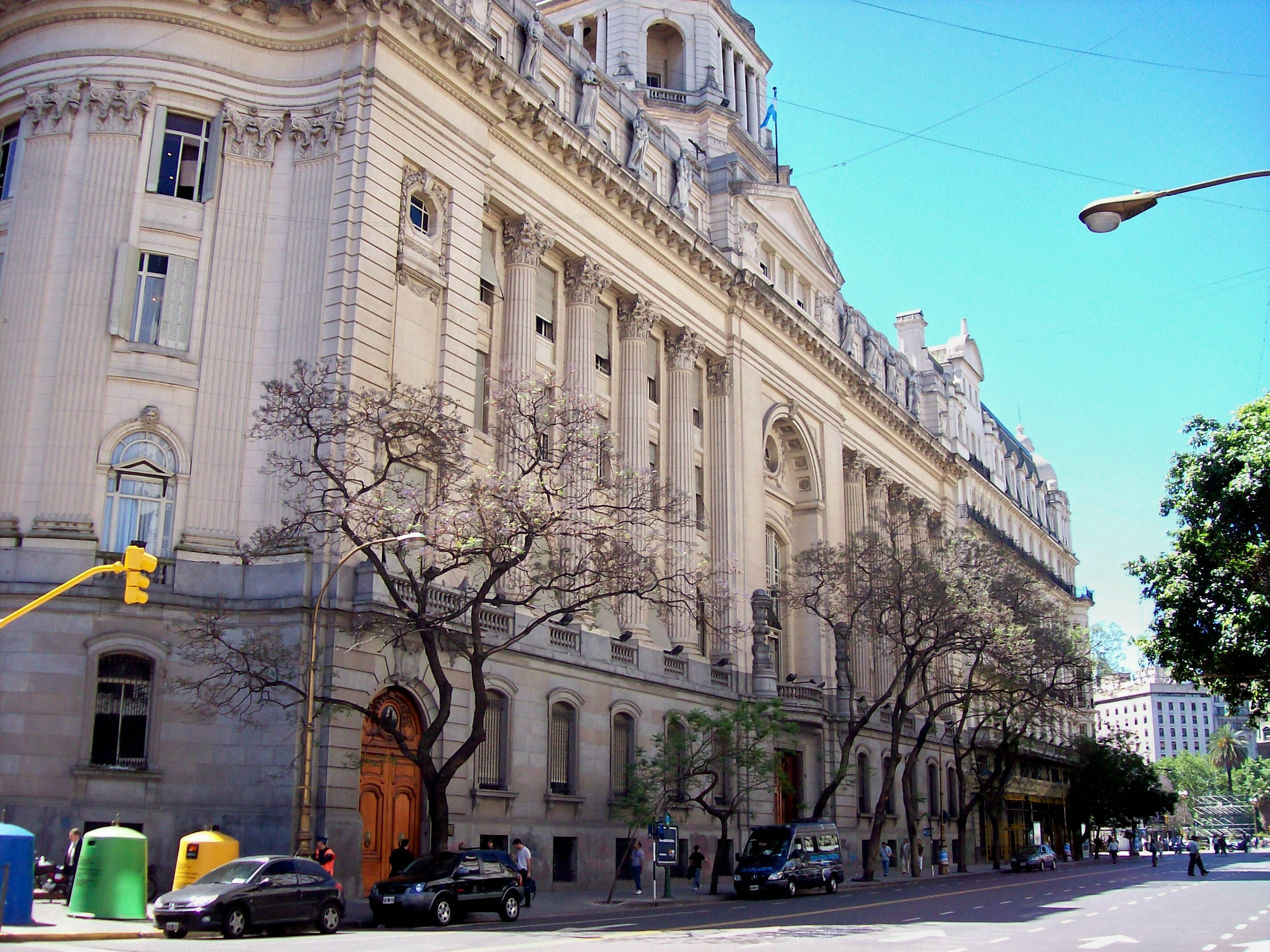 Legislative Palace of Buenos Aires, Barrio de Monserrat, next Plaza de Mayo. View from Julio A. Roca avenue